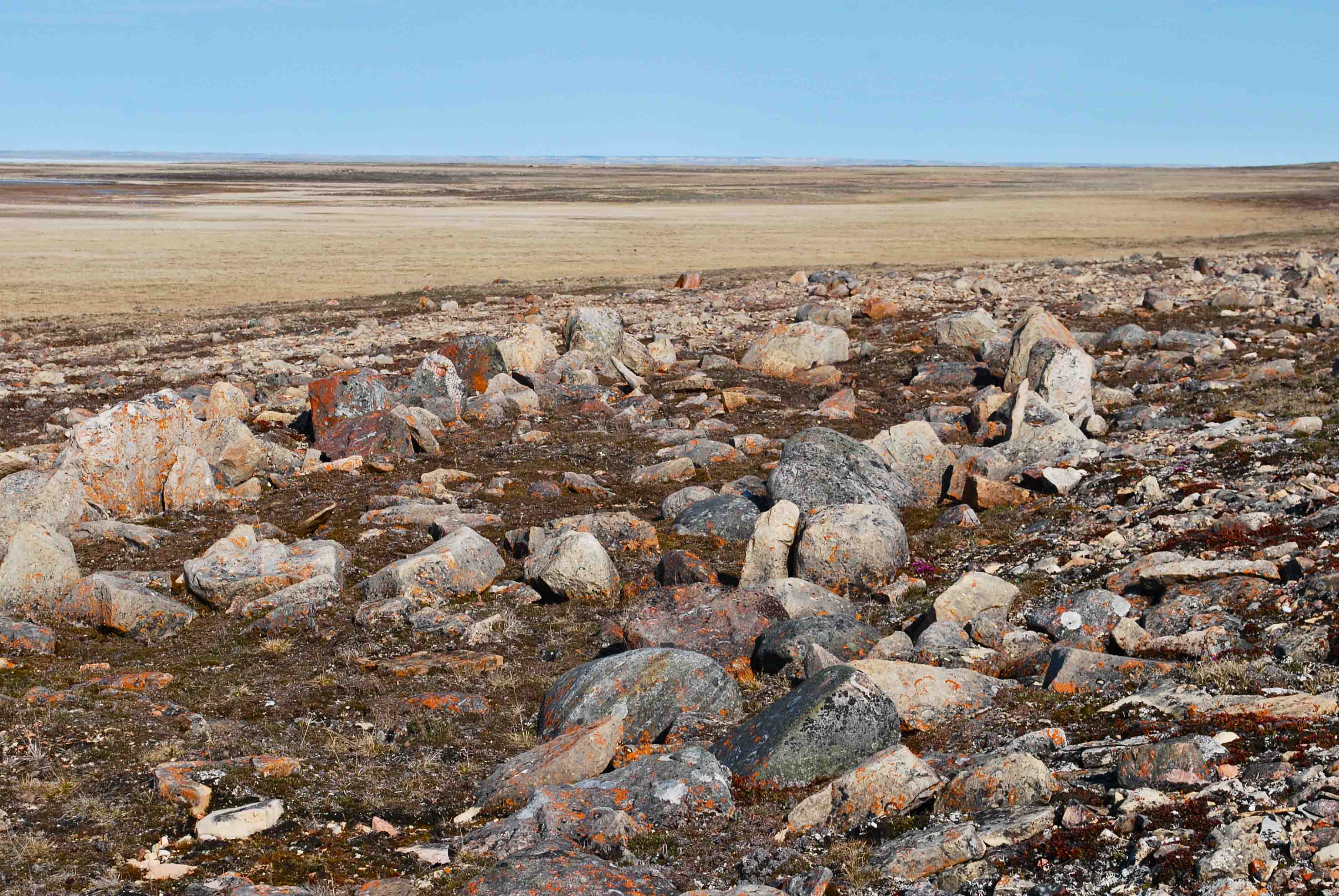 Dorset Longhouse Inuktitut: Dorset Takiyaaqtuq Qalgia